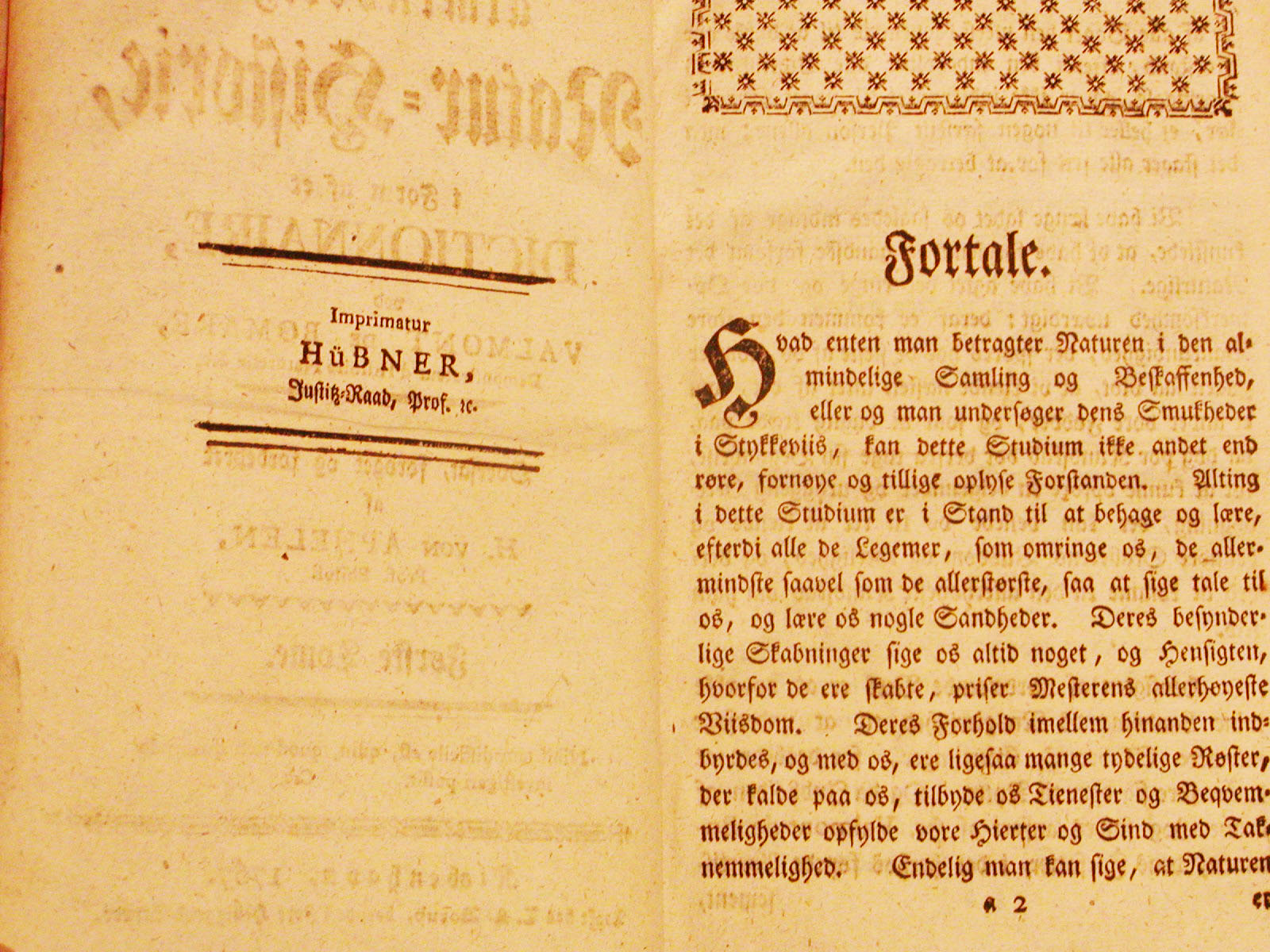 Imprimatur signature in a 18th century Danish book